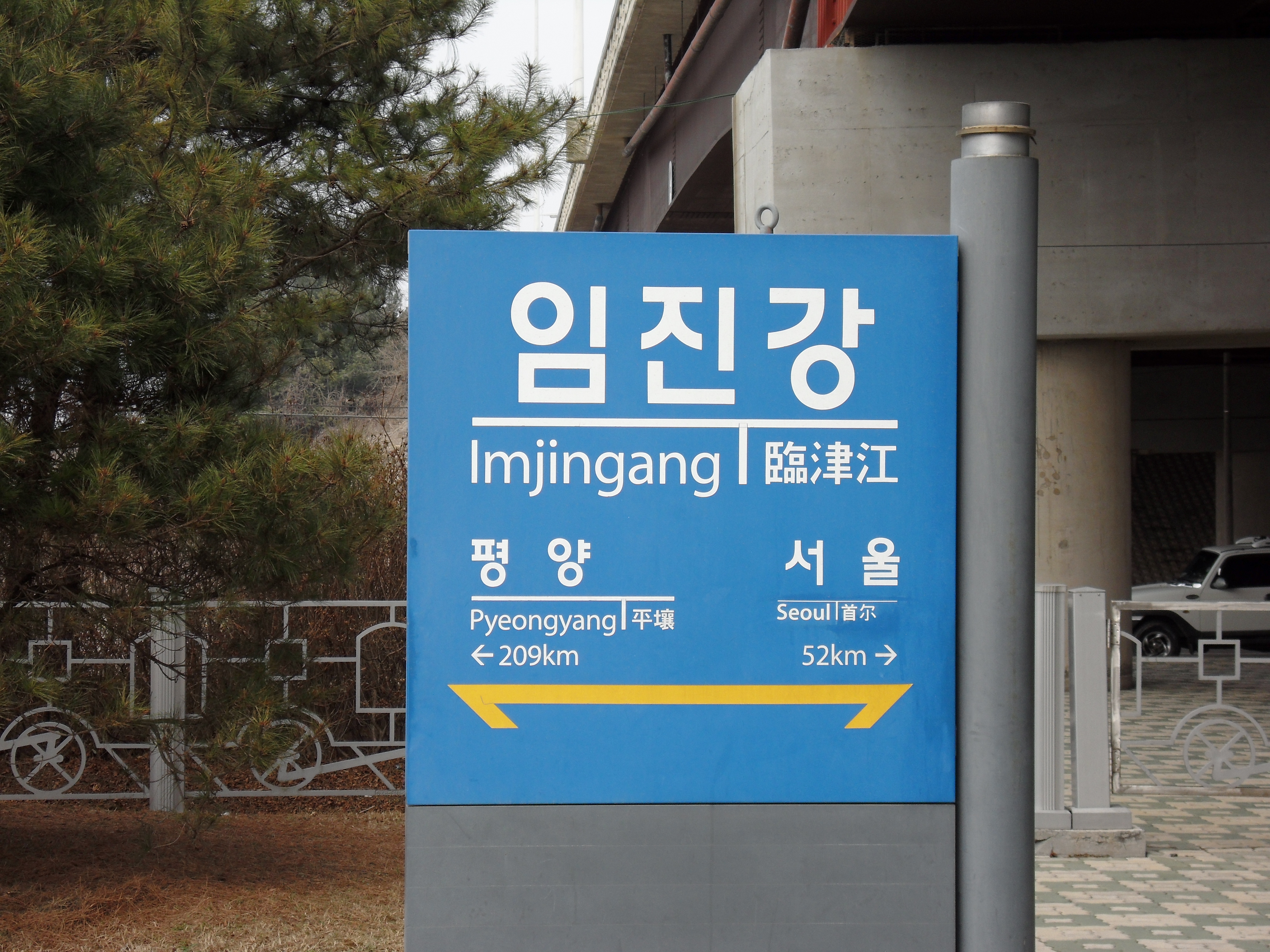 Imjingang Station (Gyeongui Line).